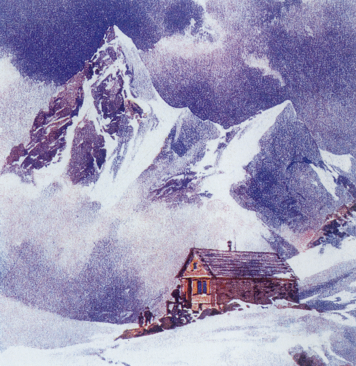 Hochjochhütte and Thurwieserspitze